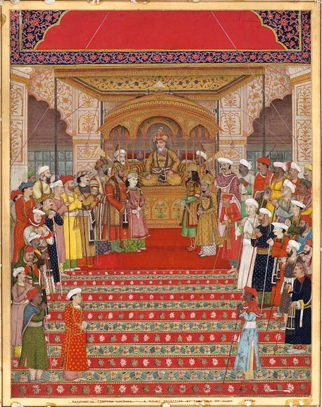 Painting, opaque water colour and gold on paper, Akbar II (1759-1837, r.1806-1837) in durbar (holding court) in the Diwan-i Khas of the Palace at Delhi. This painting shows the emperor surrounded by the princes of the blood royal and on either side the nobles of the court. Victoria and Albert Museum number 03535(IS).